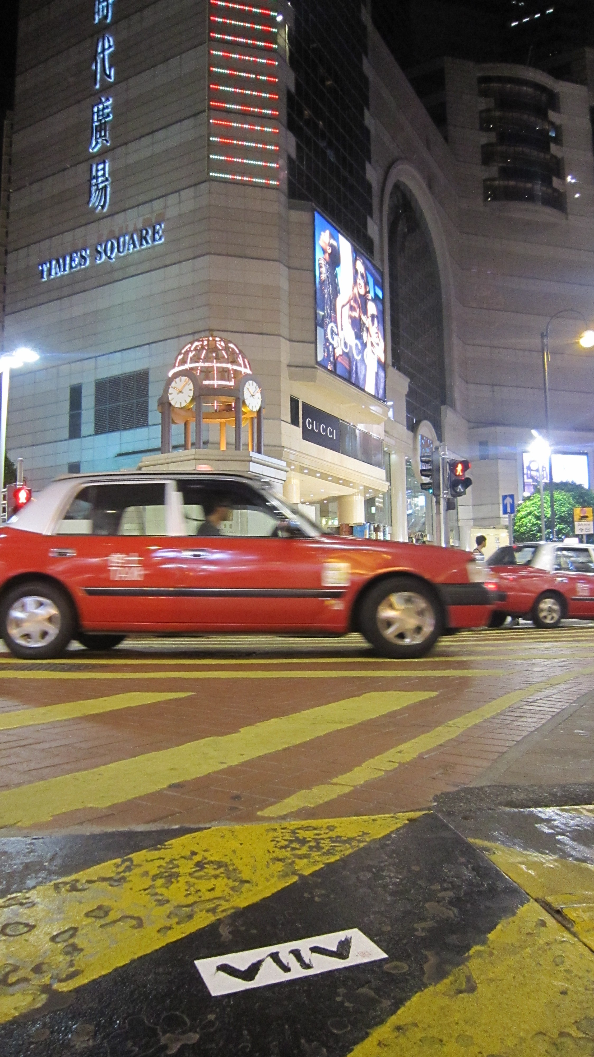 VIIV label in front of Time Square